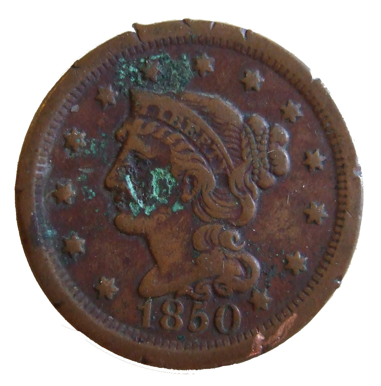 USA, 1850 ---LARGE CENT a